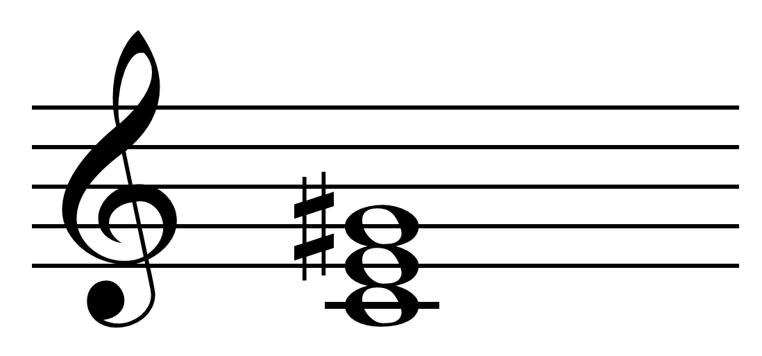 Augmented triad on C